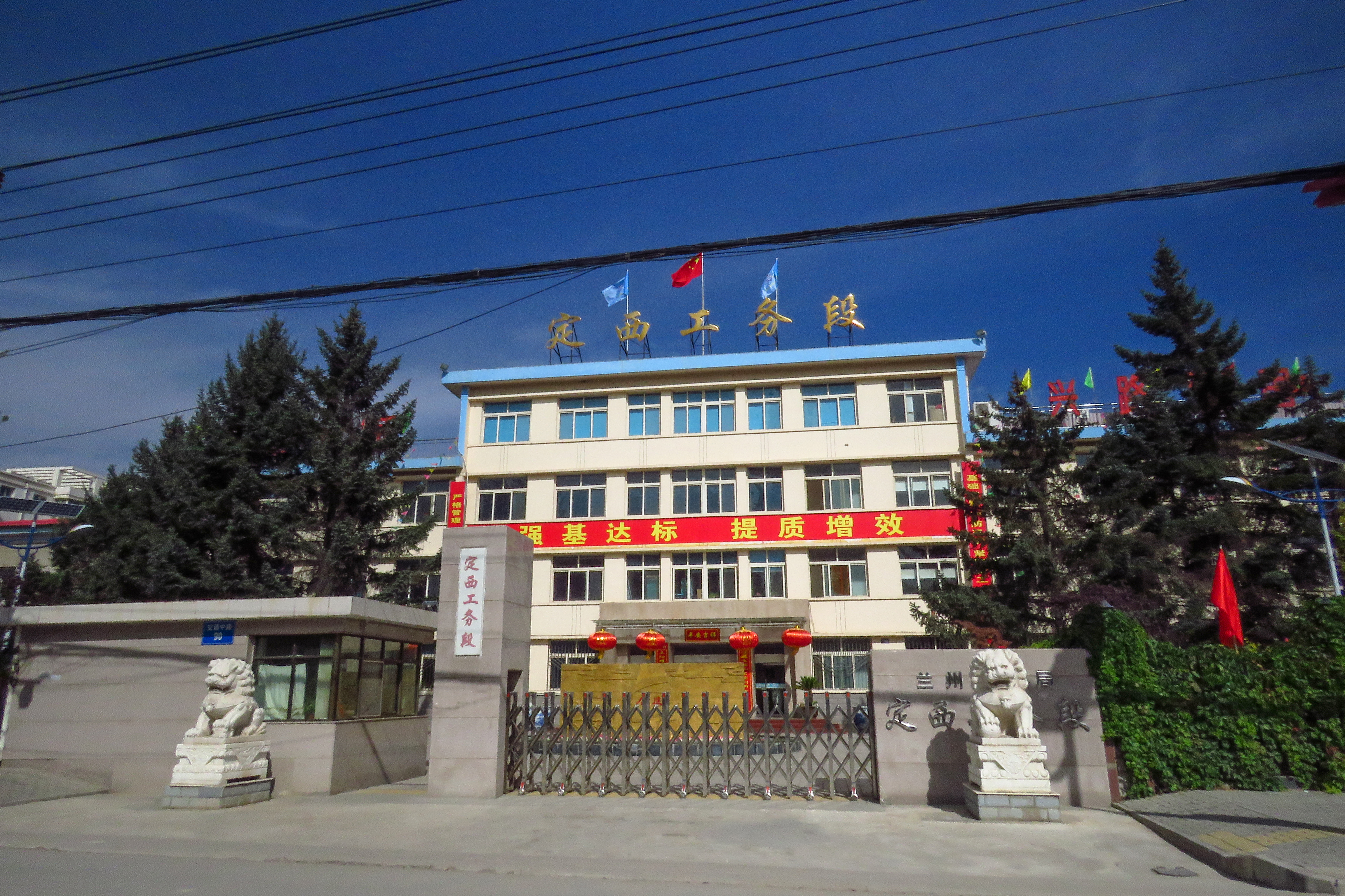 South of Dingxi Railway Station. The bus stop mistook "工务段" for "公务段", a non-existent word which means "department of business".